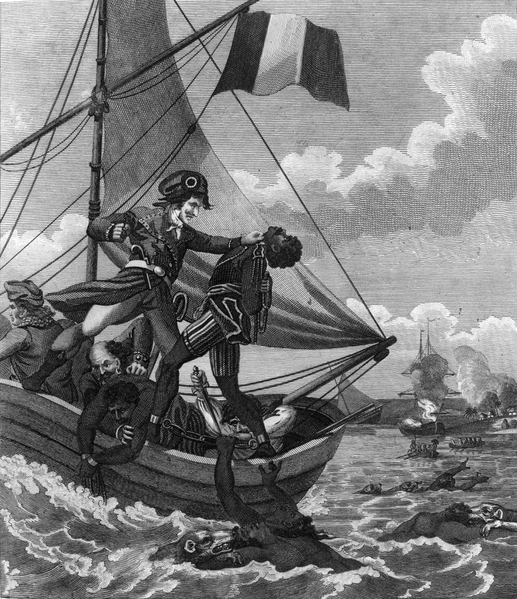 French soldier pushes a black soldier into the sea where other black men are attacked by dogs. Military aspects include ships, boats, and French flag.